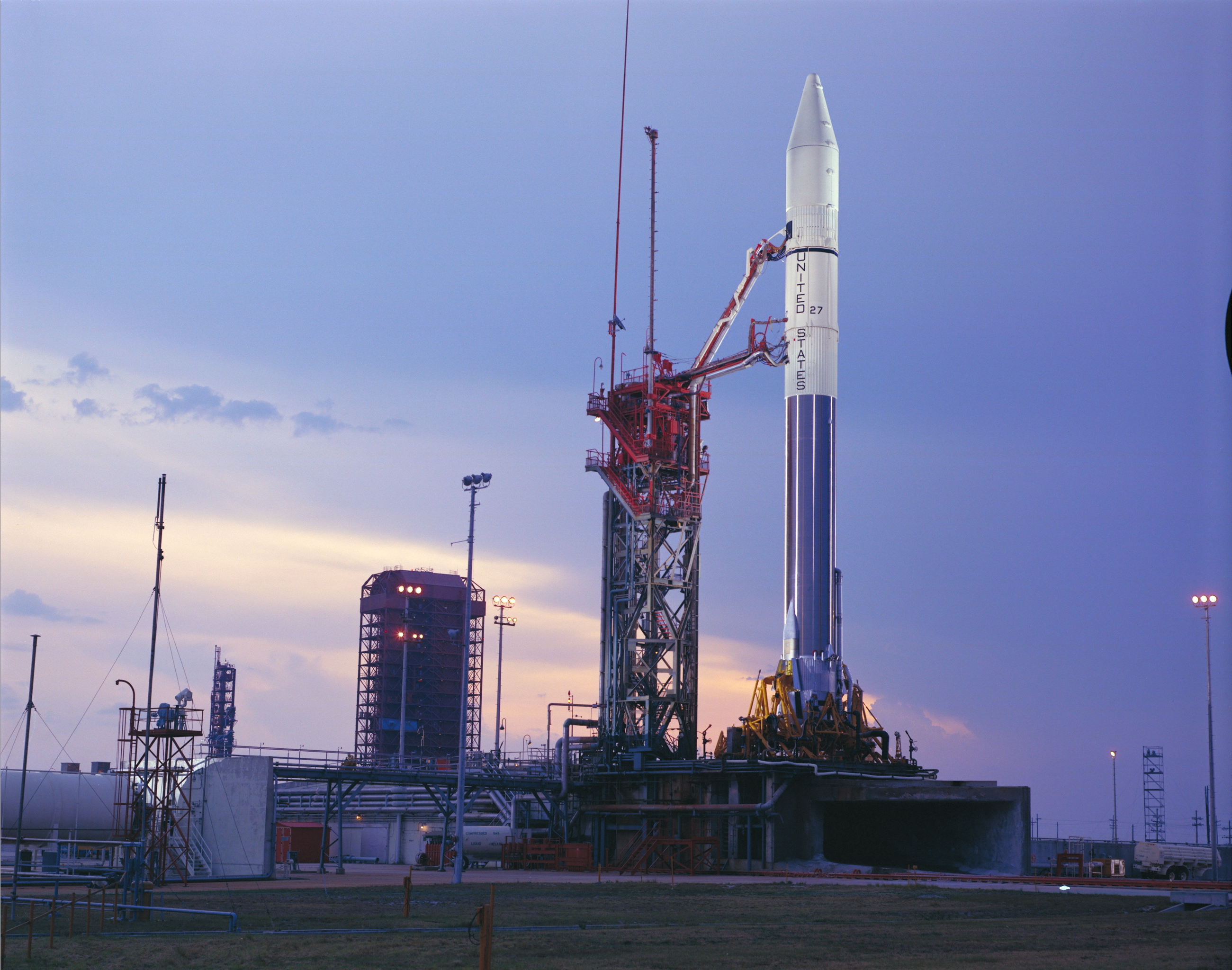 Large version - A pre-launch view of Pioneer-10 (or F) spacecraft encapsulated and mated with an Atlas-Centaur launch vehicle in preparation for its mission to Jupiter